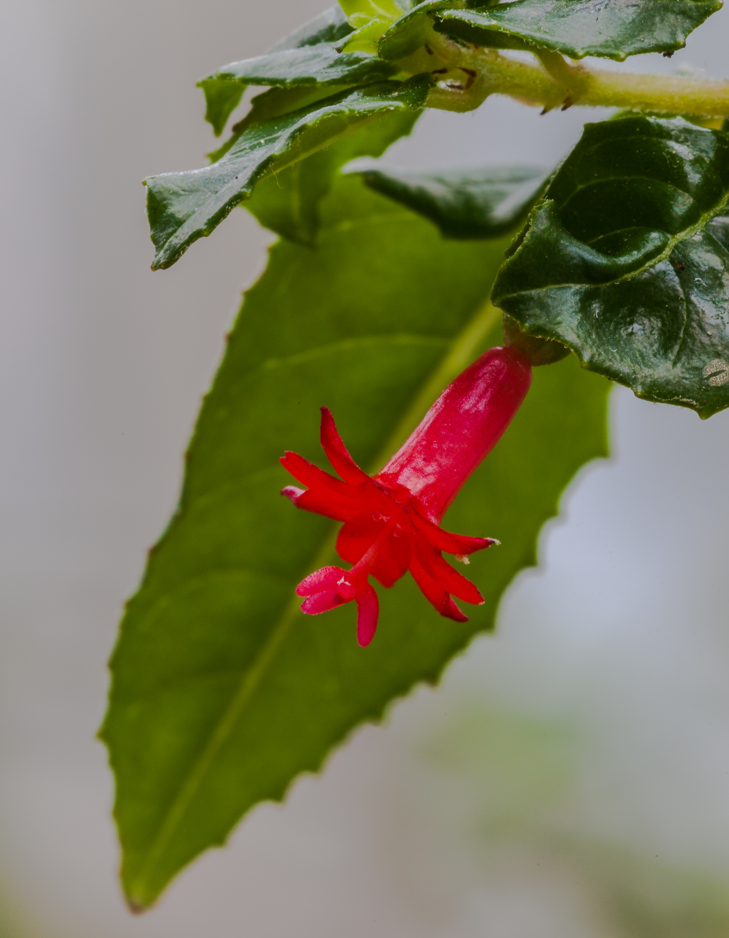 Fuchsia x bacillaris, Jardín Botánico de Múnich, Alemania